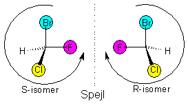 R/S isomers of bromochlorofluoromethane. Created with ACD/ChemSketch Freeware and GIMP.